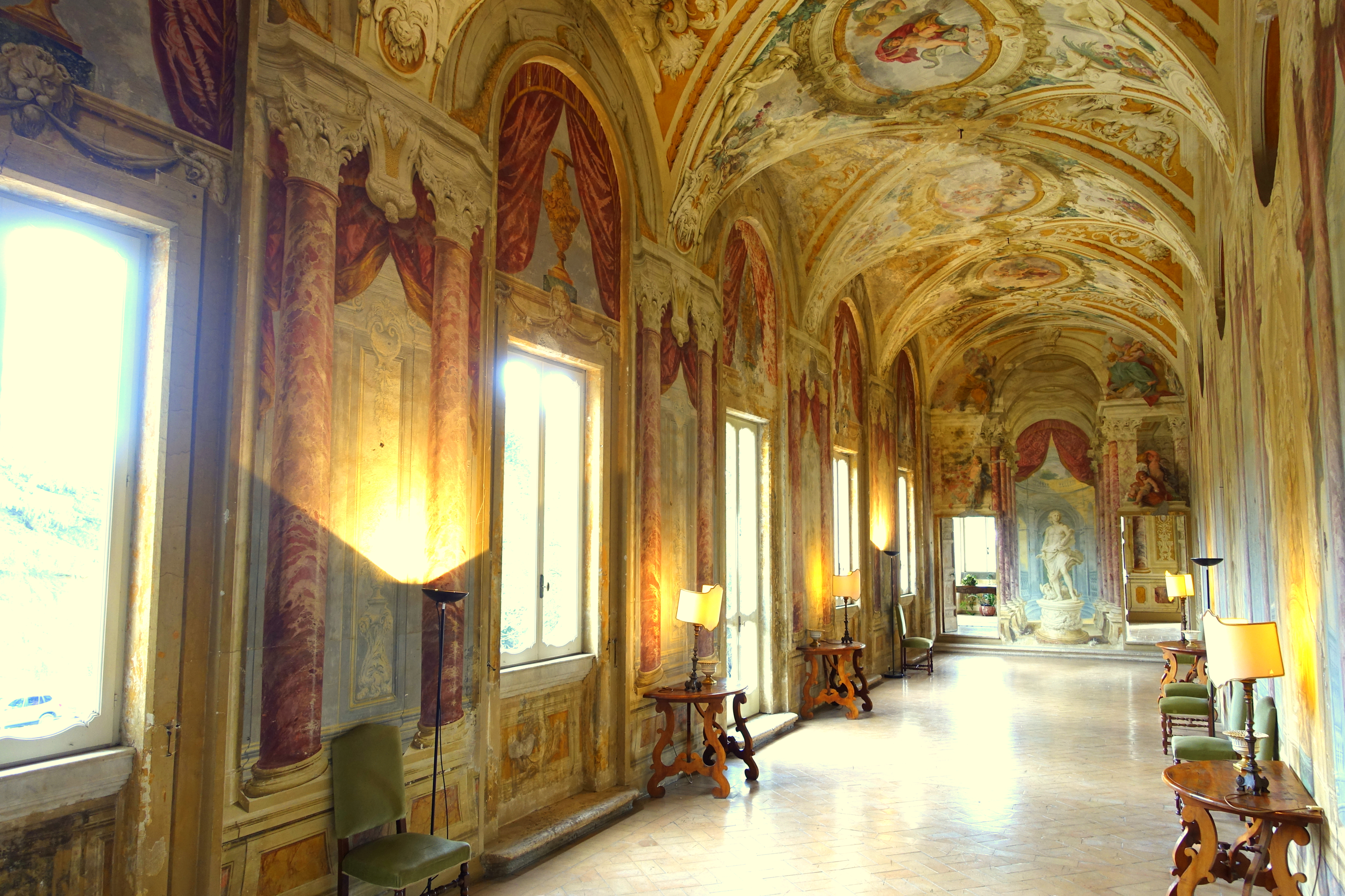 Interior - Villa Grazioli - Grottaferrata, Italy.